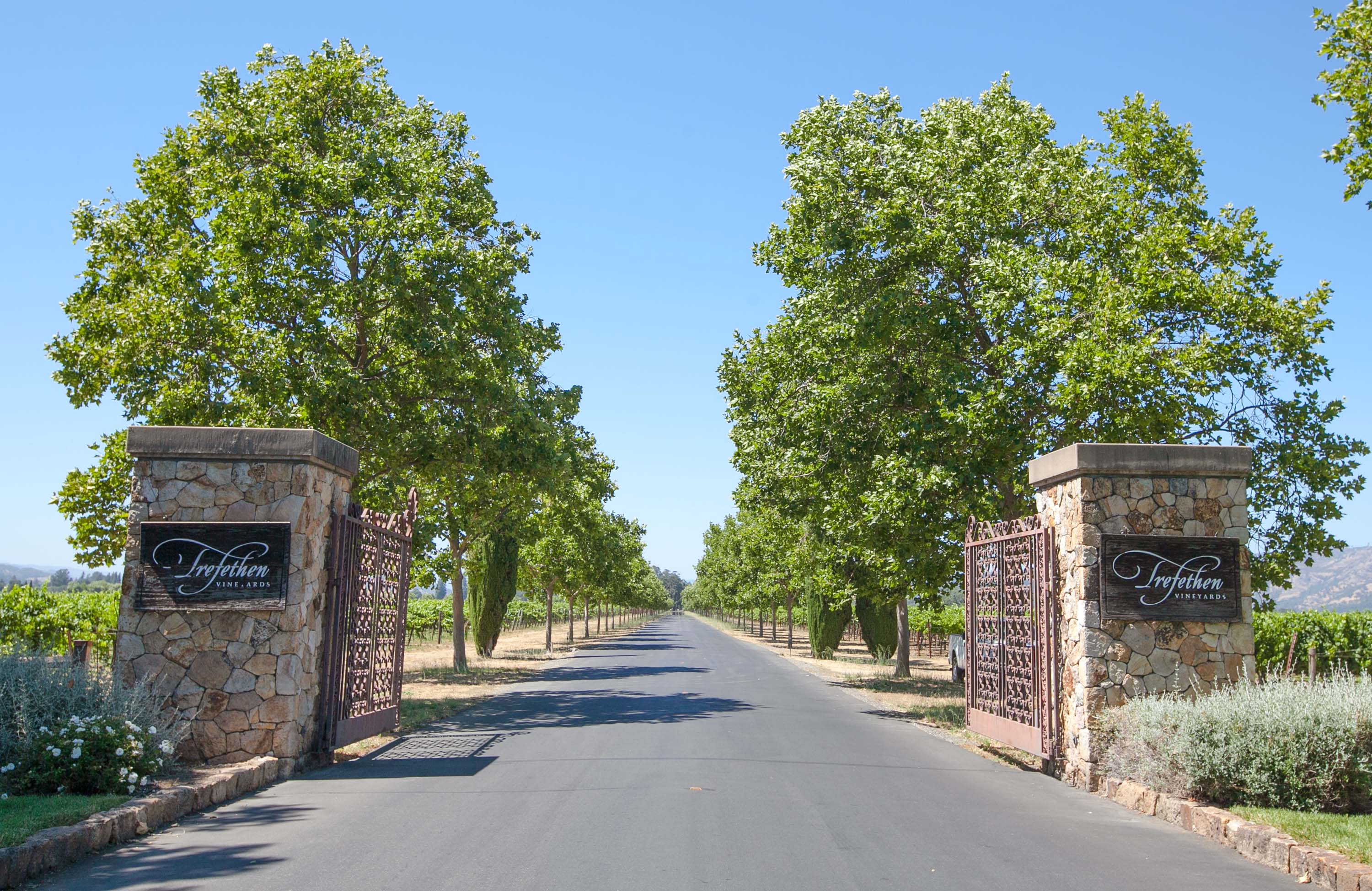 Entrance to Trefethen Vineyards